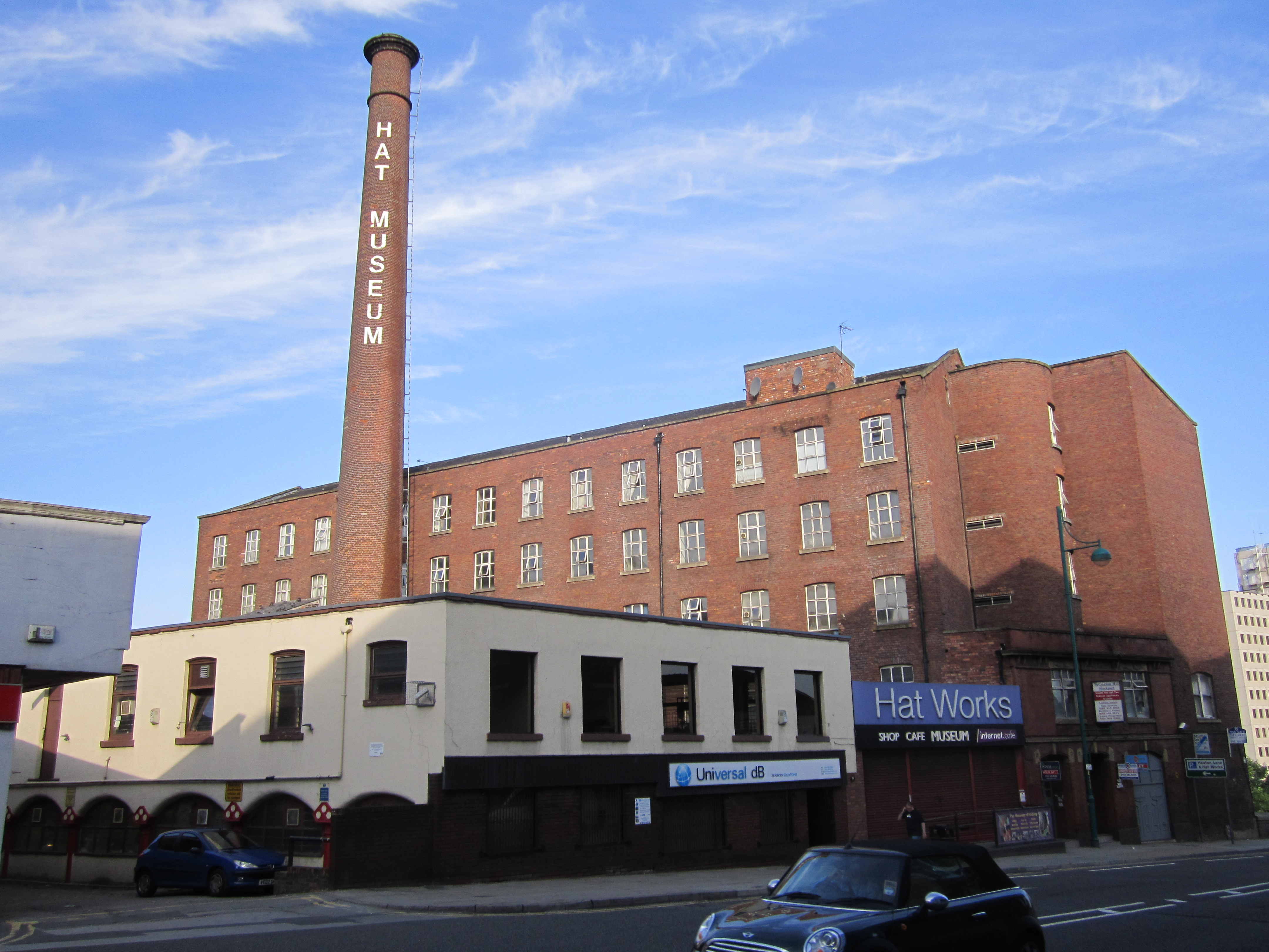 Hat Works Museum, Stockport, Greater Manchester, England.